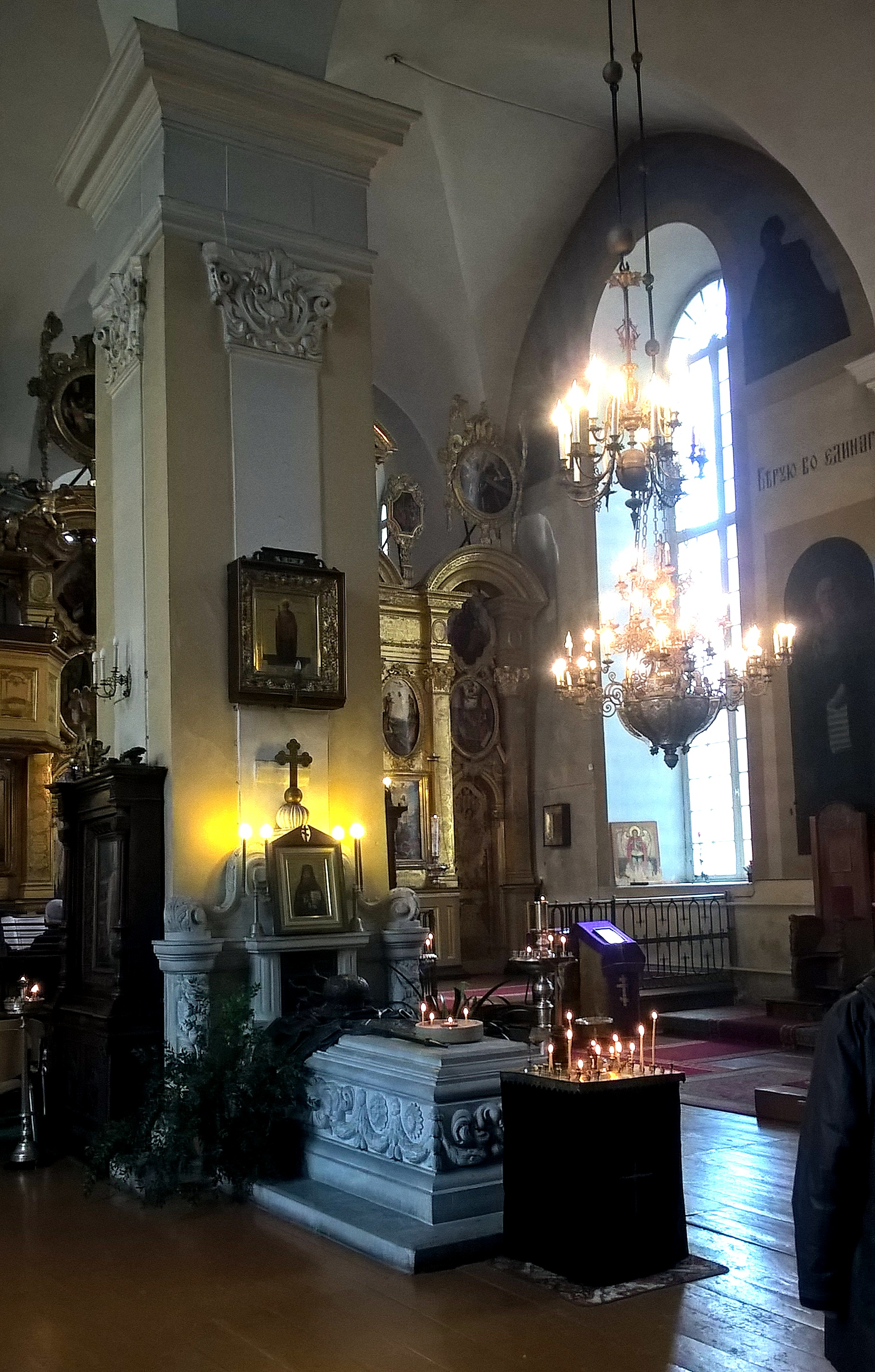 Gravestone of bishop Platon (Kulbusch), Orthodox neomartyr, in Transfiguration Cathedral in Tallinn